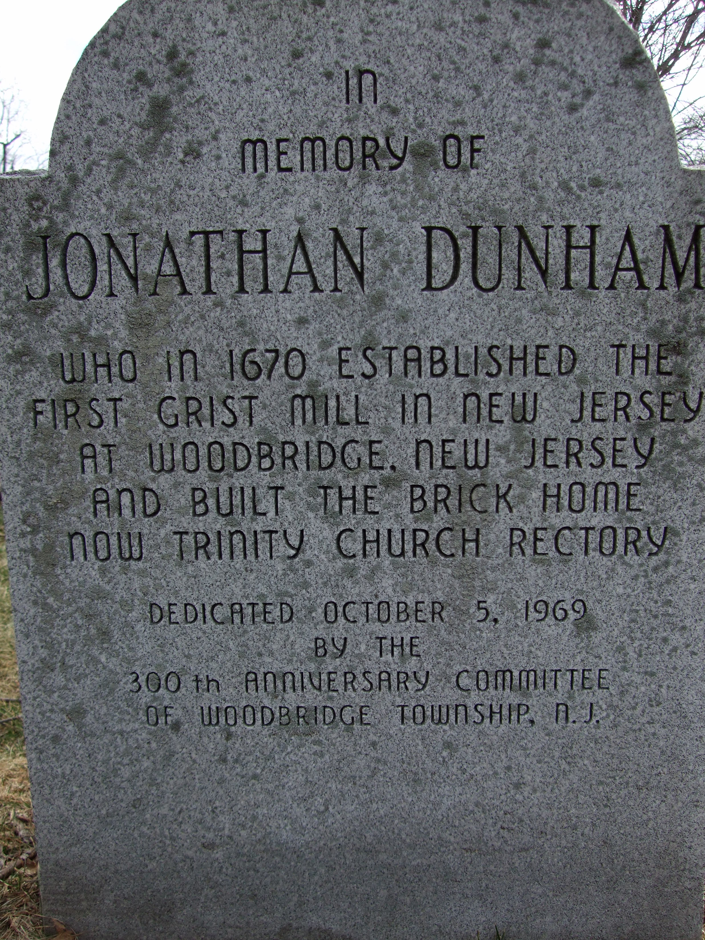 This photo depicts the memorial stone commissioned by the 300 Anniversary Committee of Woodbridge, NJ and placed in front of the Jonathan Dunham house, near the site where Jonathan Dunham built the first grist mill in New Jersey in 1670.